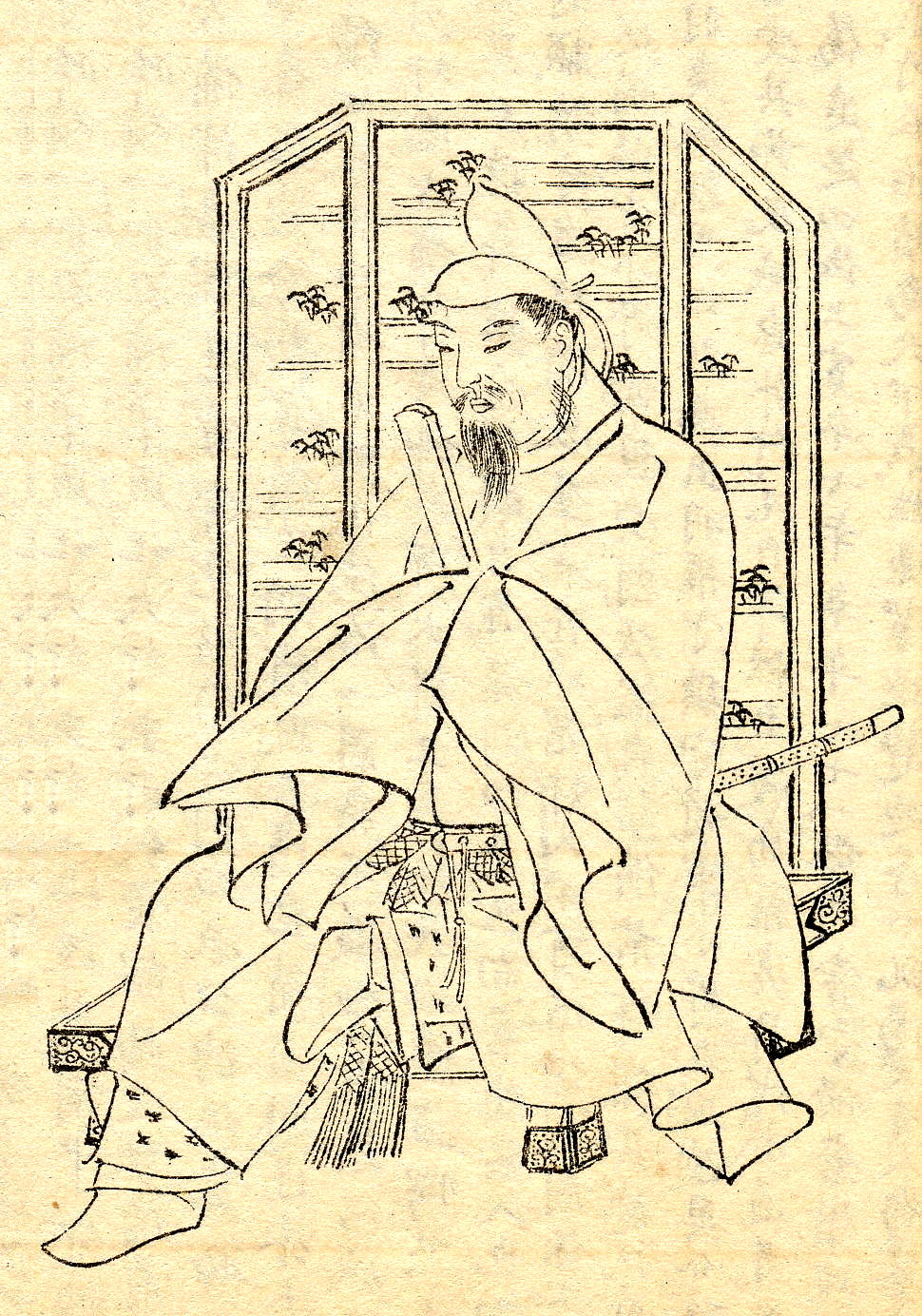 Drawing of Sugawara no Michizane.